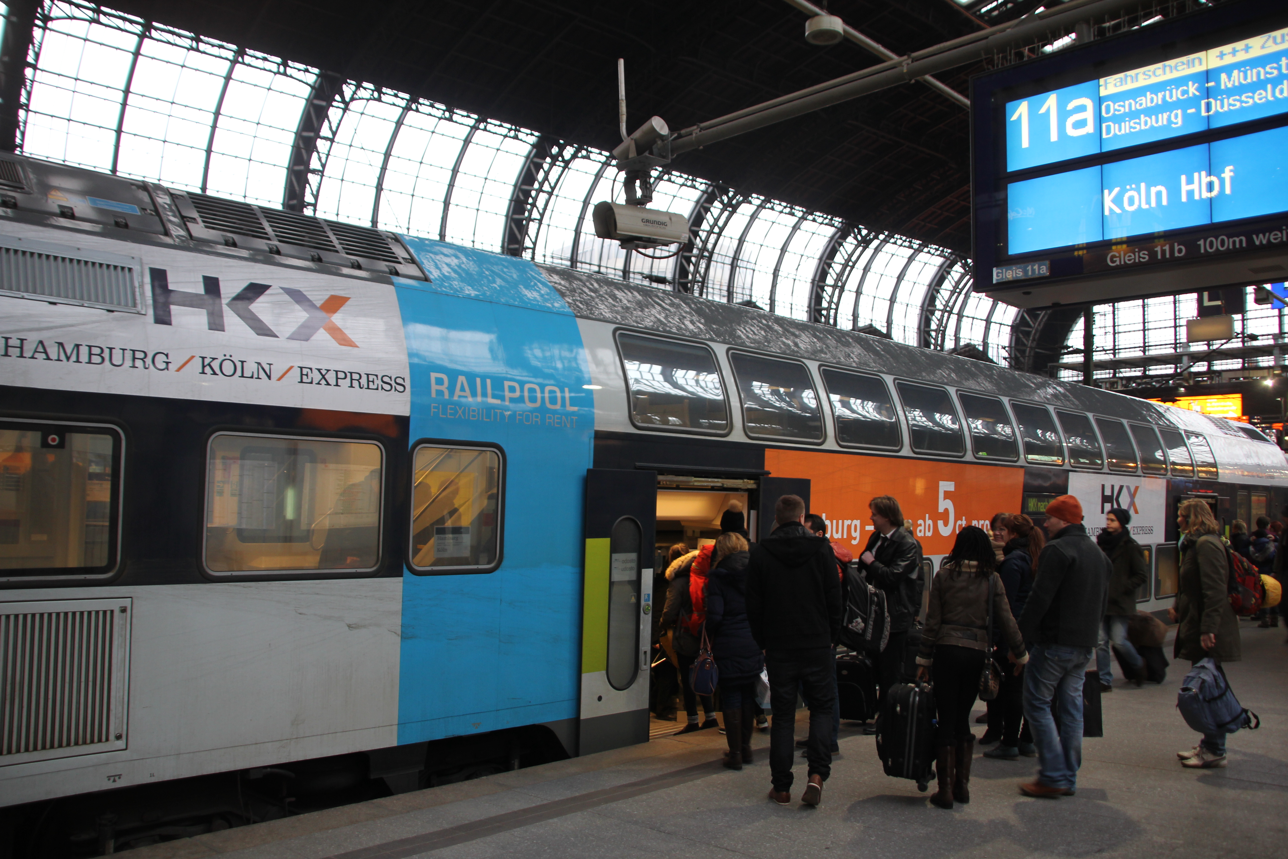 The Hamburg-Köln-Express train on Hamburg Main Station